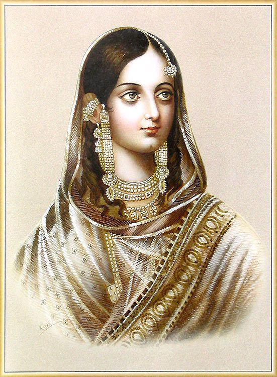 Painting of Zeenat Mahal, wife of Mughal Emperor Bahadur Shah II.